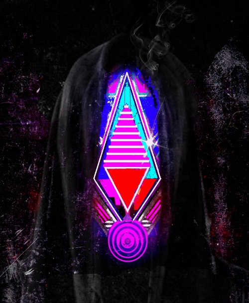 Video Violence as pictured in his latest press shot.